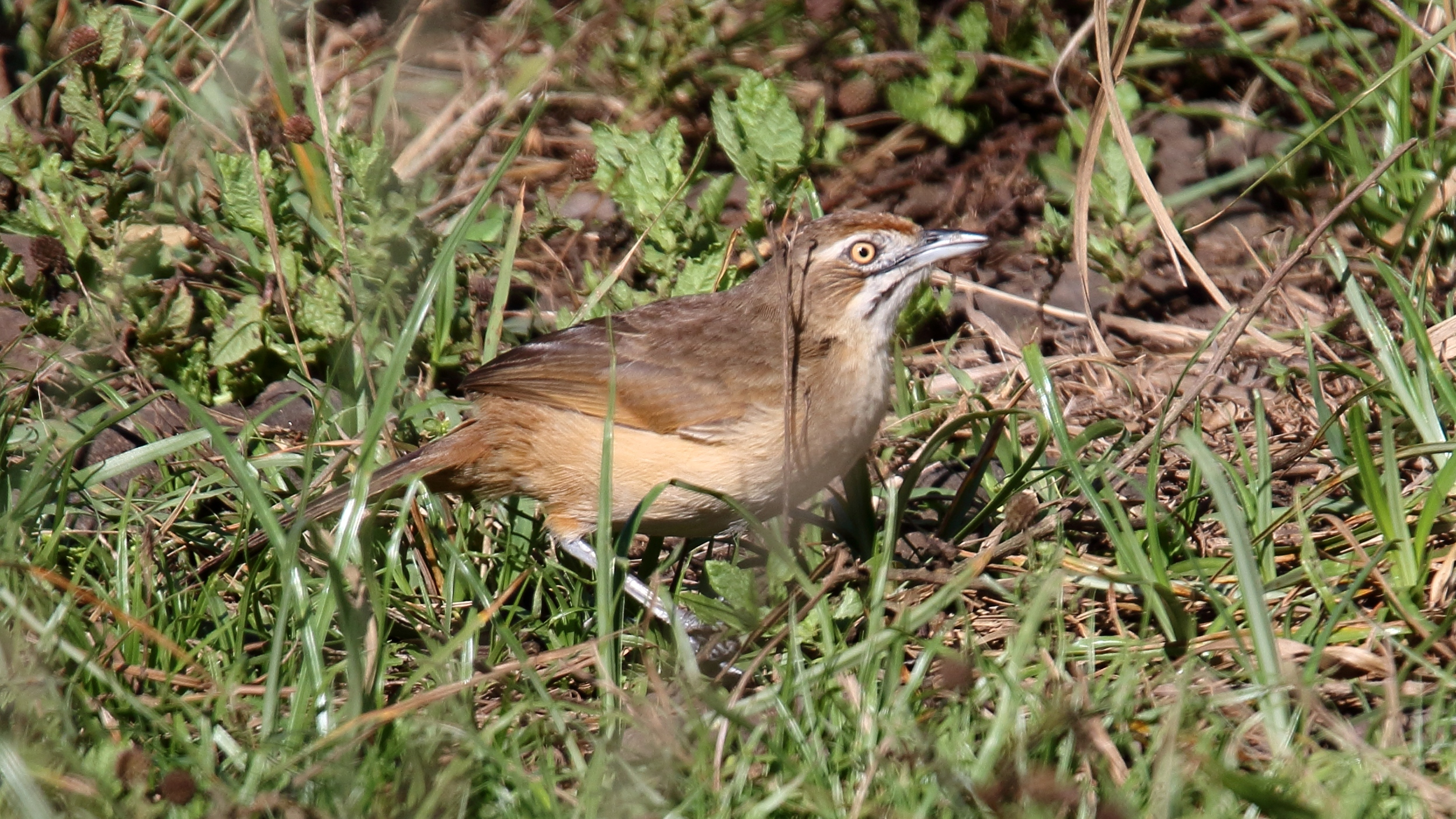 Moustached Grass-Warbler (Melocichla mentalis)